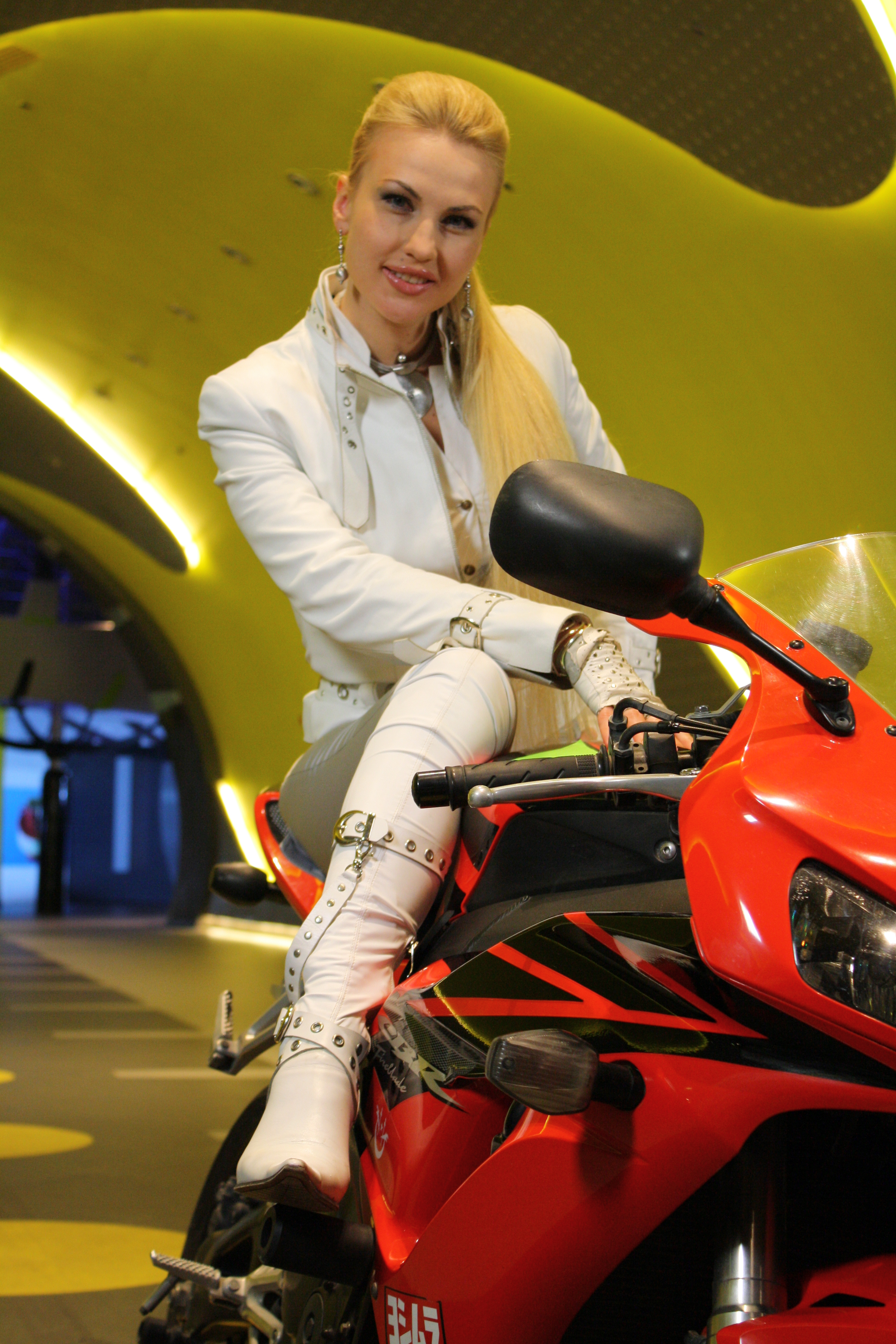 This is my photo taken during Mantera (the movie) filming. This photo is mine and I do not mind giving it away for free.